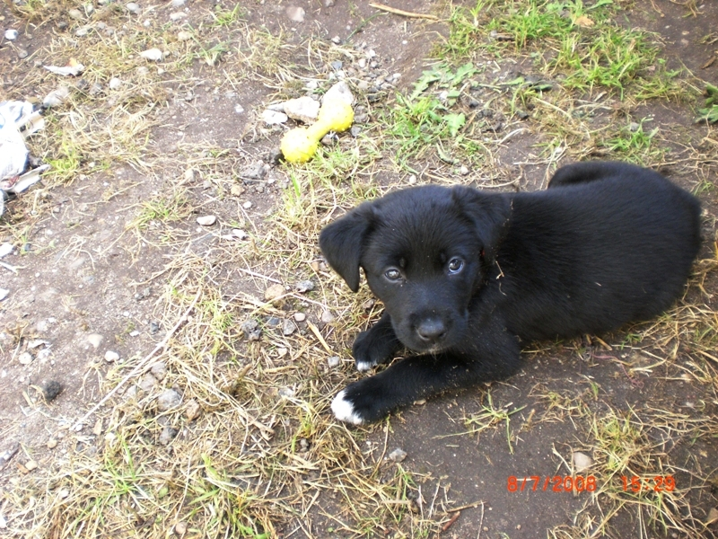 A Borador puppy. Mother Labrador Retriever and father a Border Collie.